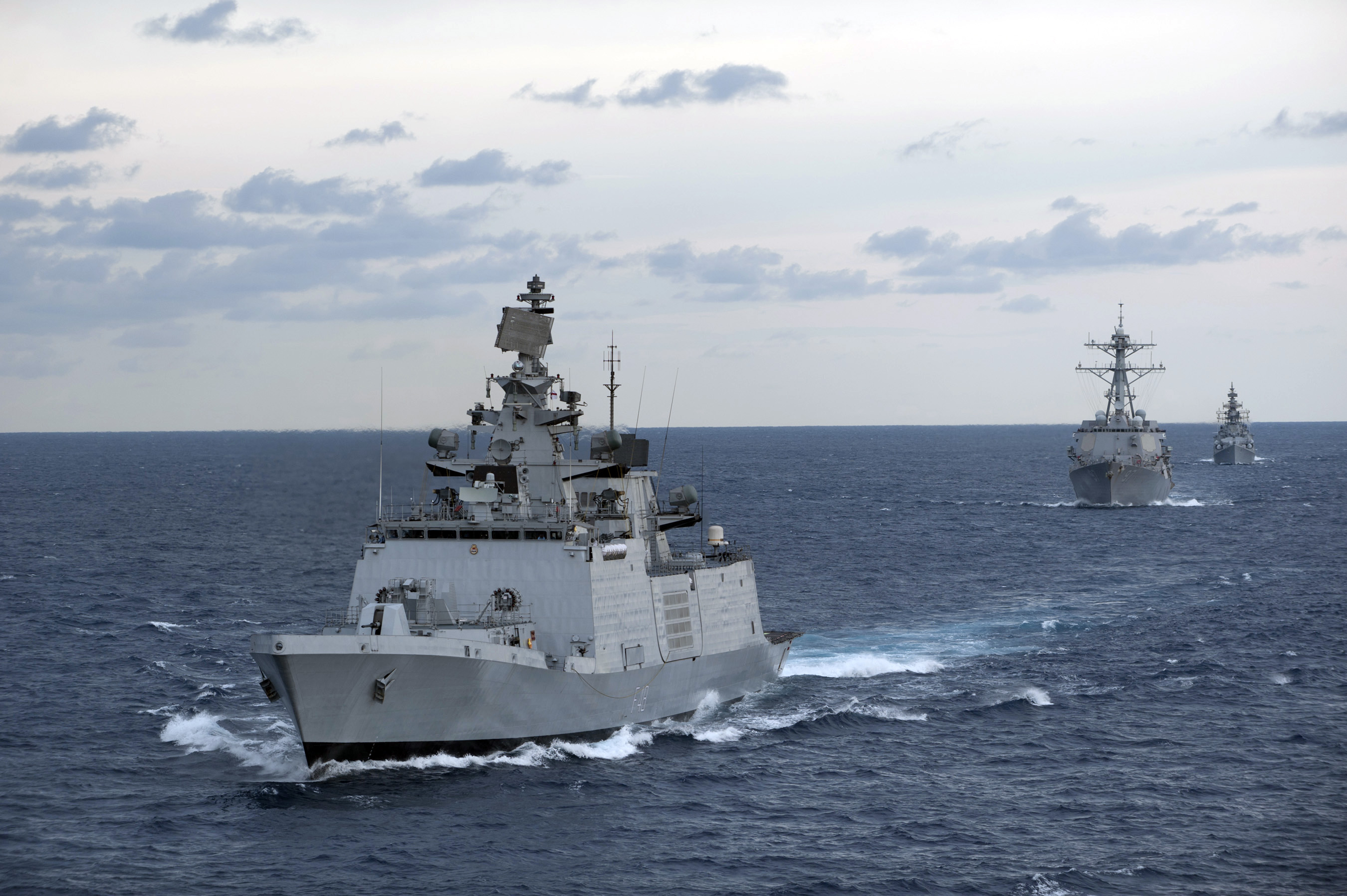 The Indian navy frigate INS Satpura (F48) is underway with the Ticonderoga-class guided-missile cruiser USS Bunker Hill (CG 52) and the Arleigh Burke-class guided-missile destroyer USS Halsey (DDG 97) as they transit in formation with Indian navy ships during Exercise Malabar 2012. Bunker Hill and Halsey are part of Carrier Strike Group (CSG) 1 with the aircraft carrier USS Carl Vinson (CVN 70) and are participating in the annual bi-lateral naval training exercise with the Indian navy to advance multinational maritime relationships and mutual security issues.